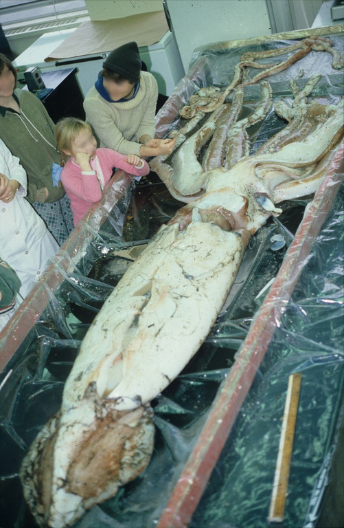 Giant squid (Architeuthis sp.) recovered in Bonavista North, Newfoundland, Canada sometime in the 1980s. It is being dissected at Memorial University of Newfoundland.